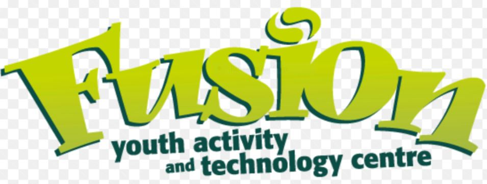 Ingersoll, Ontario